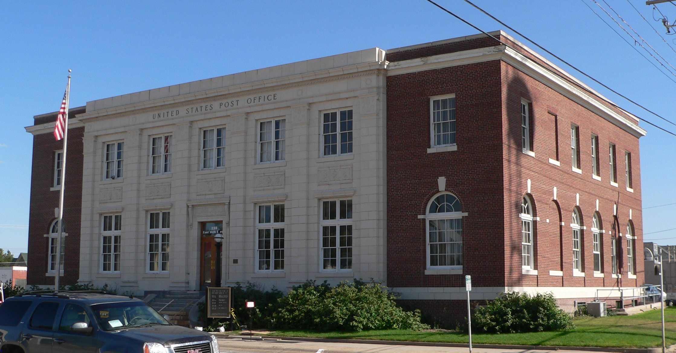 U.S. Post Office in Scottsbluff, Nebraska; seen from the northwest. The Renaissance Revival building was constructed in 1930. It is listed in the National Register of Historic Places.